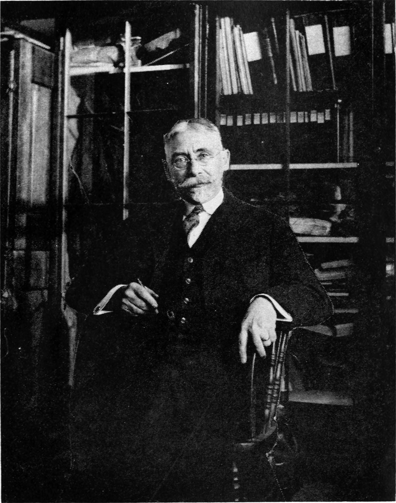 Henry Augustus Pilsbry (1862-1957) in his prime between 1900-1910.